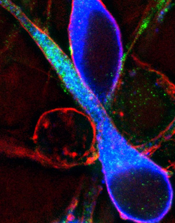 Super-resolution fluorescence microscopy image of GnRH neurons (blue). The actin cytoskeleton is shown in red, and the end-binding protein 1 at the tips of the microtubule cytoskeleton are shown in green.